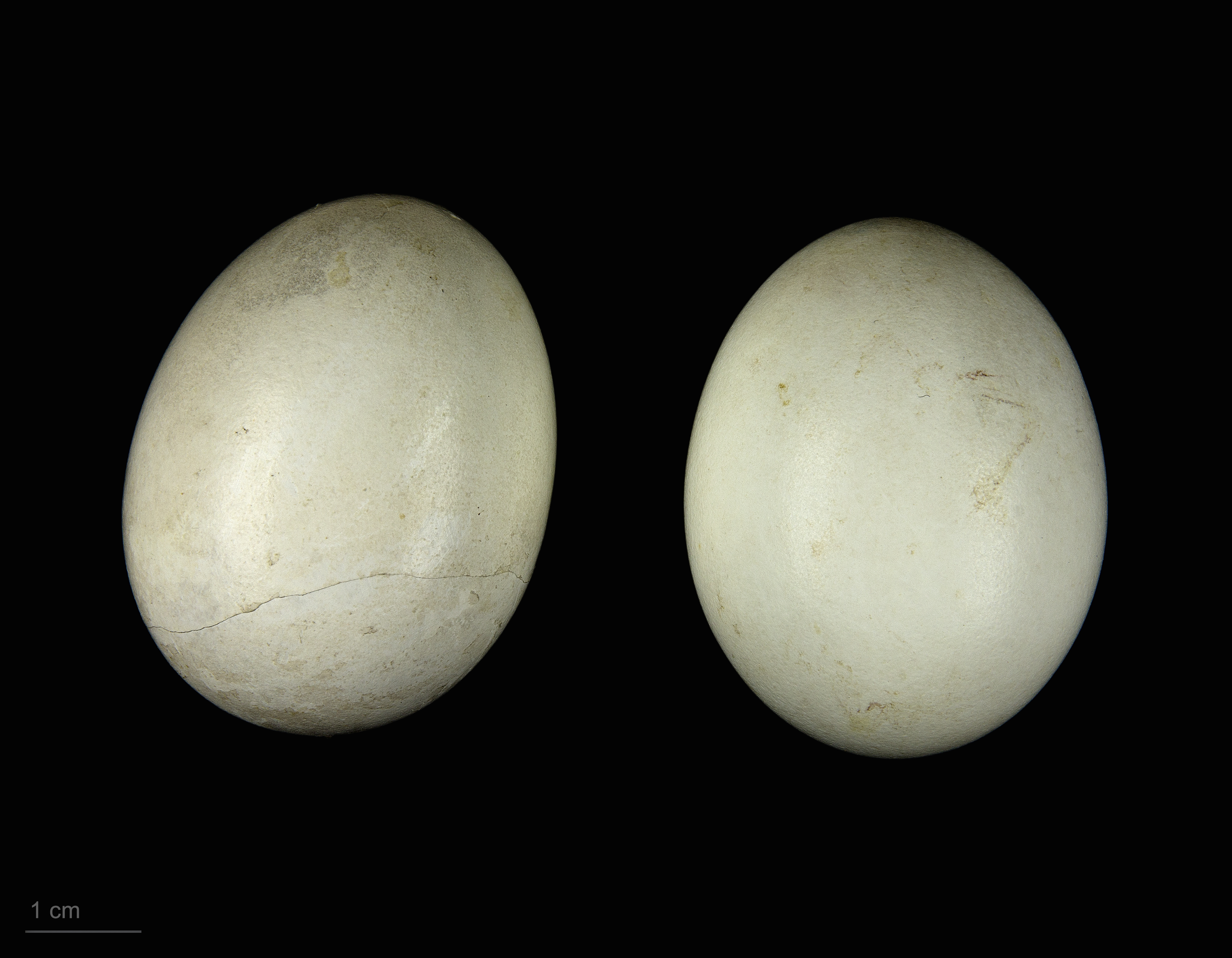 Eggs of Accipiter badius cenchroides Two specimens of the same spawn ; collection of Jacques Perrin de Brichambaut.